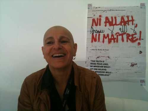 Nadia El Fani in front of the poster of her film Ni Allah, ni maître !